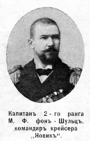 Captain M. F. von Schulz commander of the cruiser "Novik"